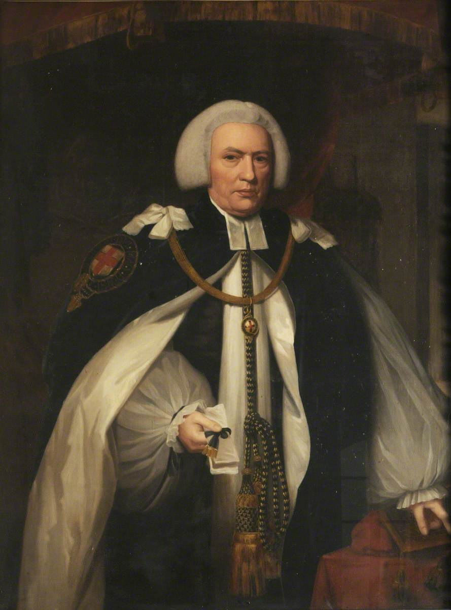 John Douglas, Bishop of Salisbury as Chancellor of the Order of the Garter